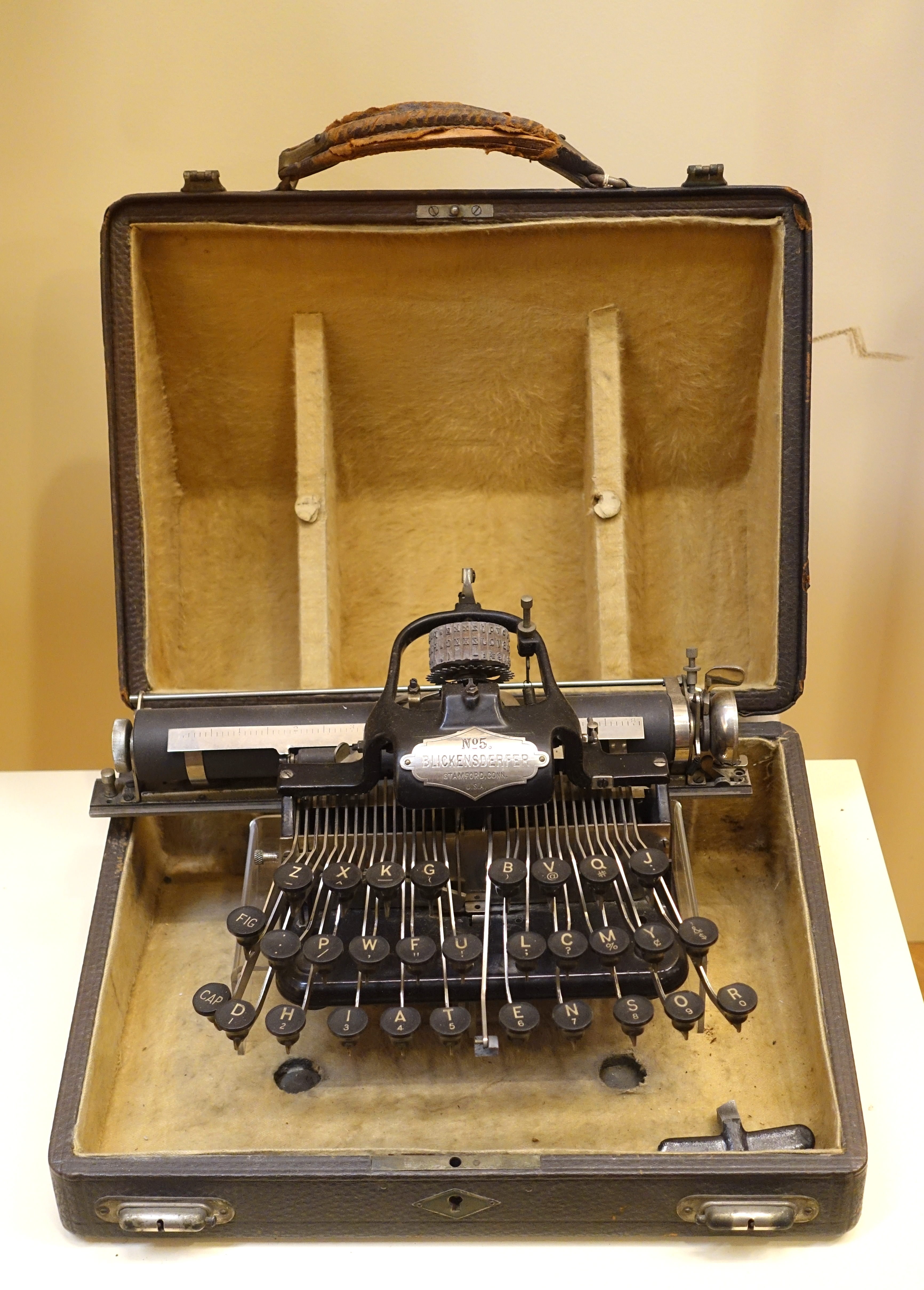 Exhibit in the Museum of Science and Industry, Chicago, Illinois, USA.